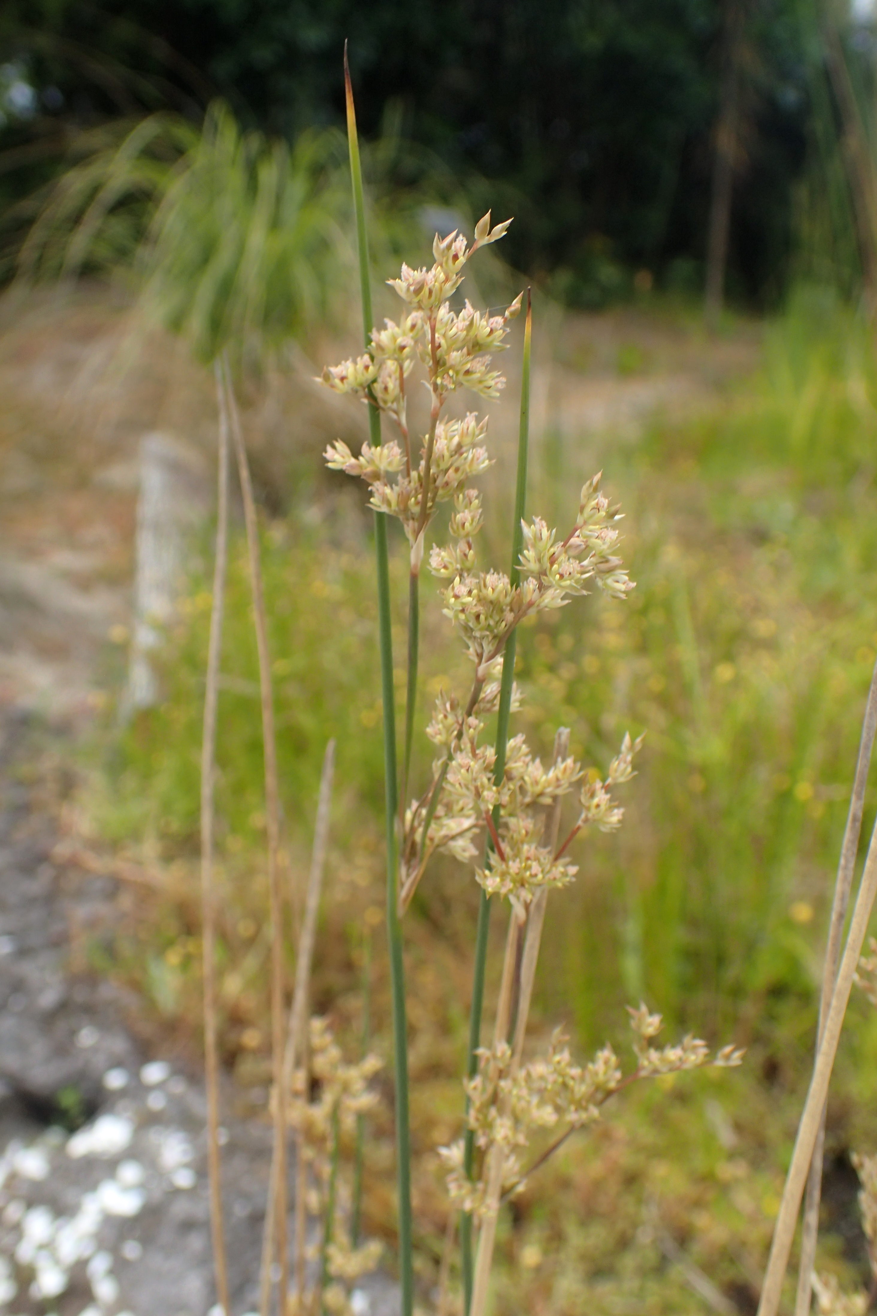 Juncus edgariae in Auckland Botanic Gardens